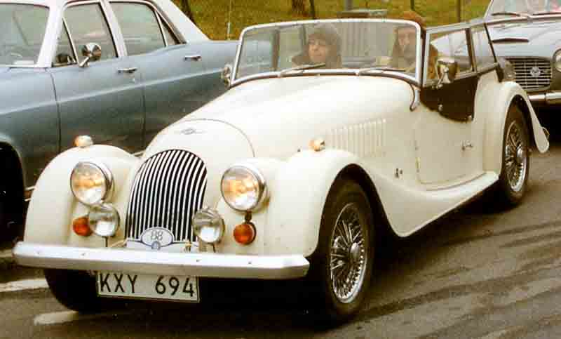 Morgan 4/4 4-seater 1974